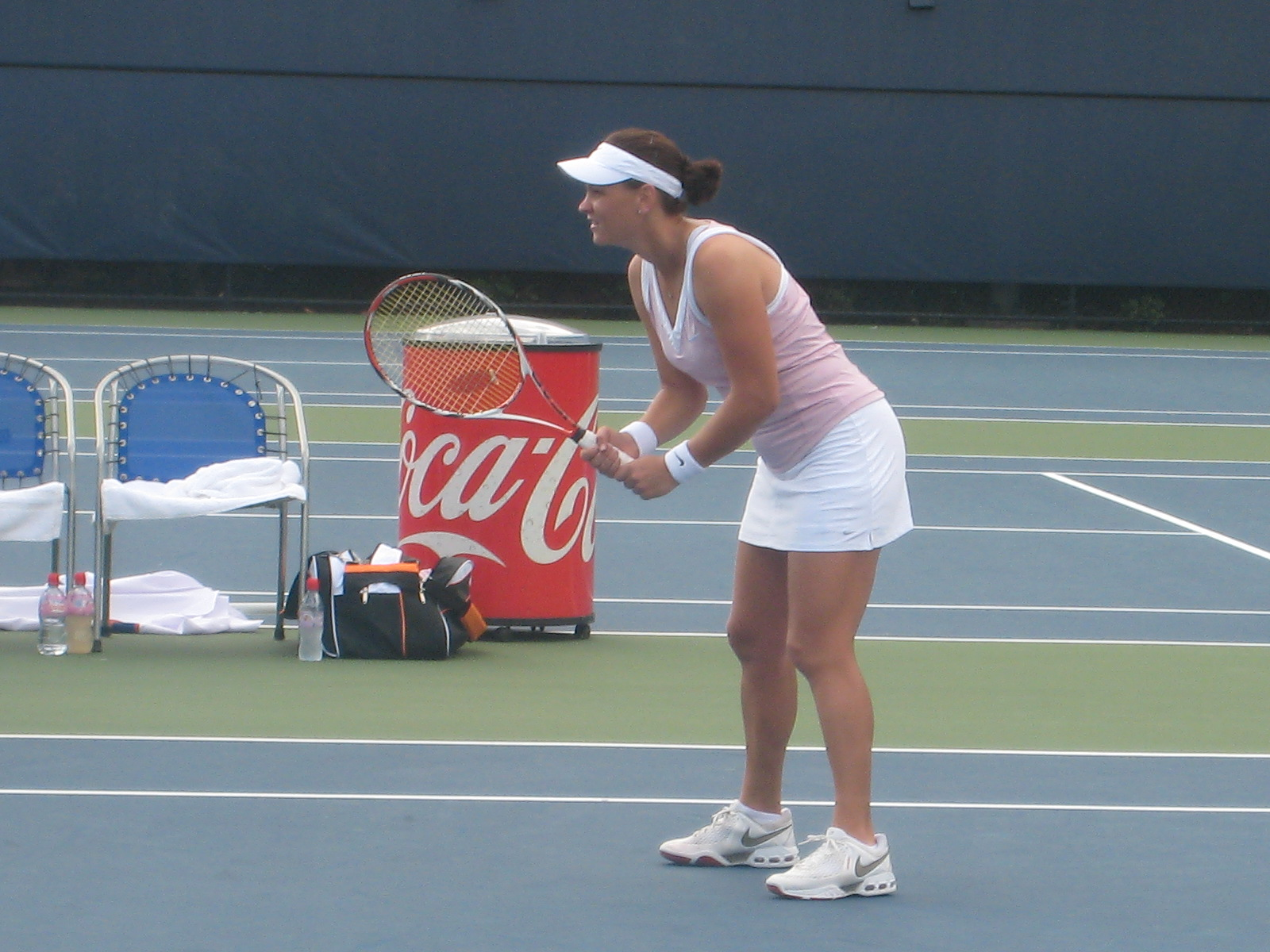 Casey Dellacqua plays with Nathalie Dechy at the 2008 Pilot Pen Tennis tournament, winning against Darya Kustova and Jelena Kostanić Tošić, 6-3, 3-6, [10-6]